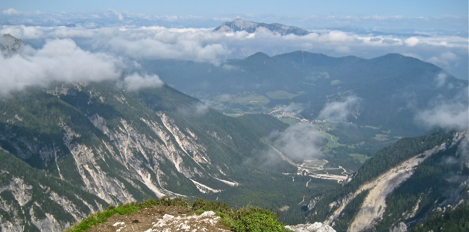 Planica, view from Sleme Point (Slemenova špica). A valley in Triglav National Park, northwestern Slovenia.